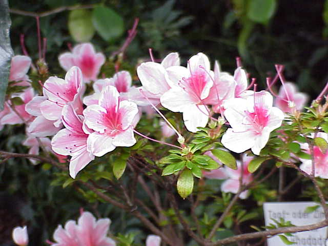 Species: Rhododendron simsii Family: Ericaceae Image No. 1